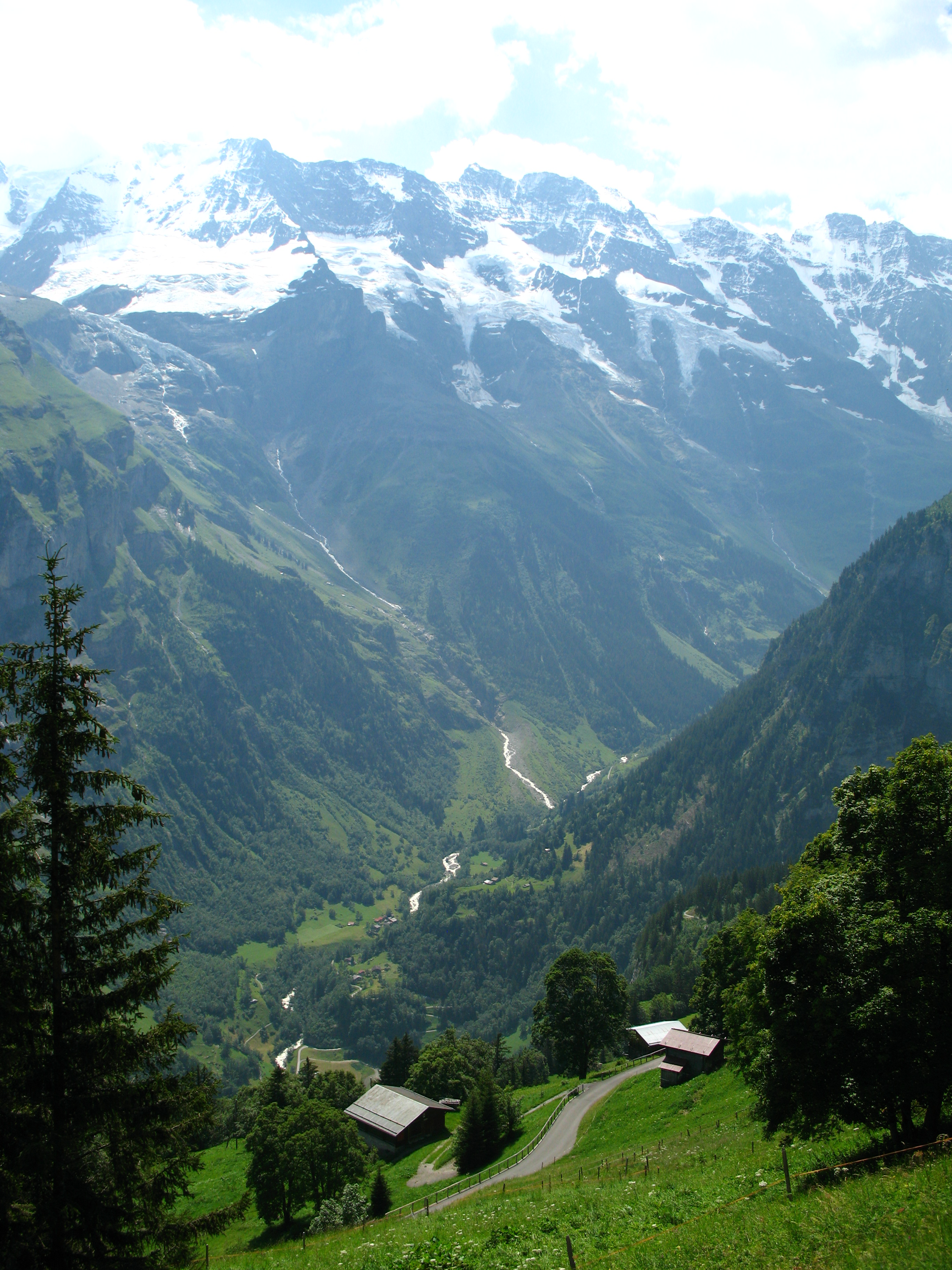 View from Niedenmatten, Mürren-Gimmelwald, Switzerland